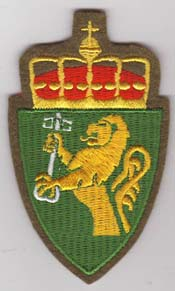 Logo of the Norwegian Defense Security Service